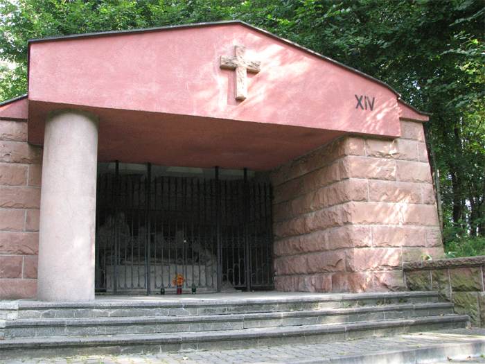 Calvary in Katowice Panewniki, Stations of the Cross - “Jesus is laid in the tomb and covered in incense”. Completed in 1953. Sculptor brother Leonard Bannert OFM.